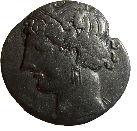 A Punic billion tridrachm coin featuring Tanit, minted in Carthage between 215-205 BC.